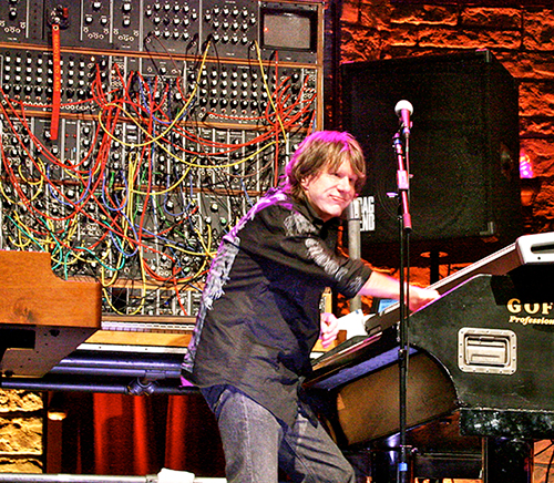 Keith Emerson performs on his Hammond and Moog synthesizer during the Emerson & Lake Tour 2010. This was taken at their final show in Atlantic City, NJ, USA on May 15, 2010